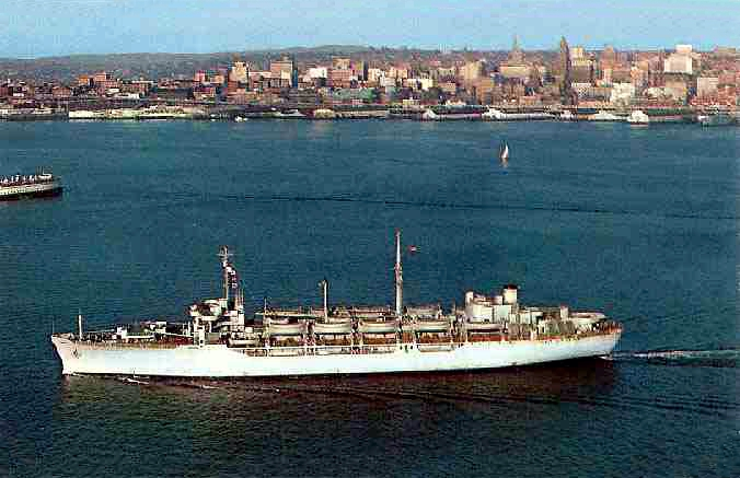 The U.S. Military Sea Transportation Service transport USNS General H. B. Freeman (T-AP-143) underway in San Francisco Bay, approaching the docks at the U.S. Army Depot, Oakland, California (USA).